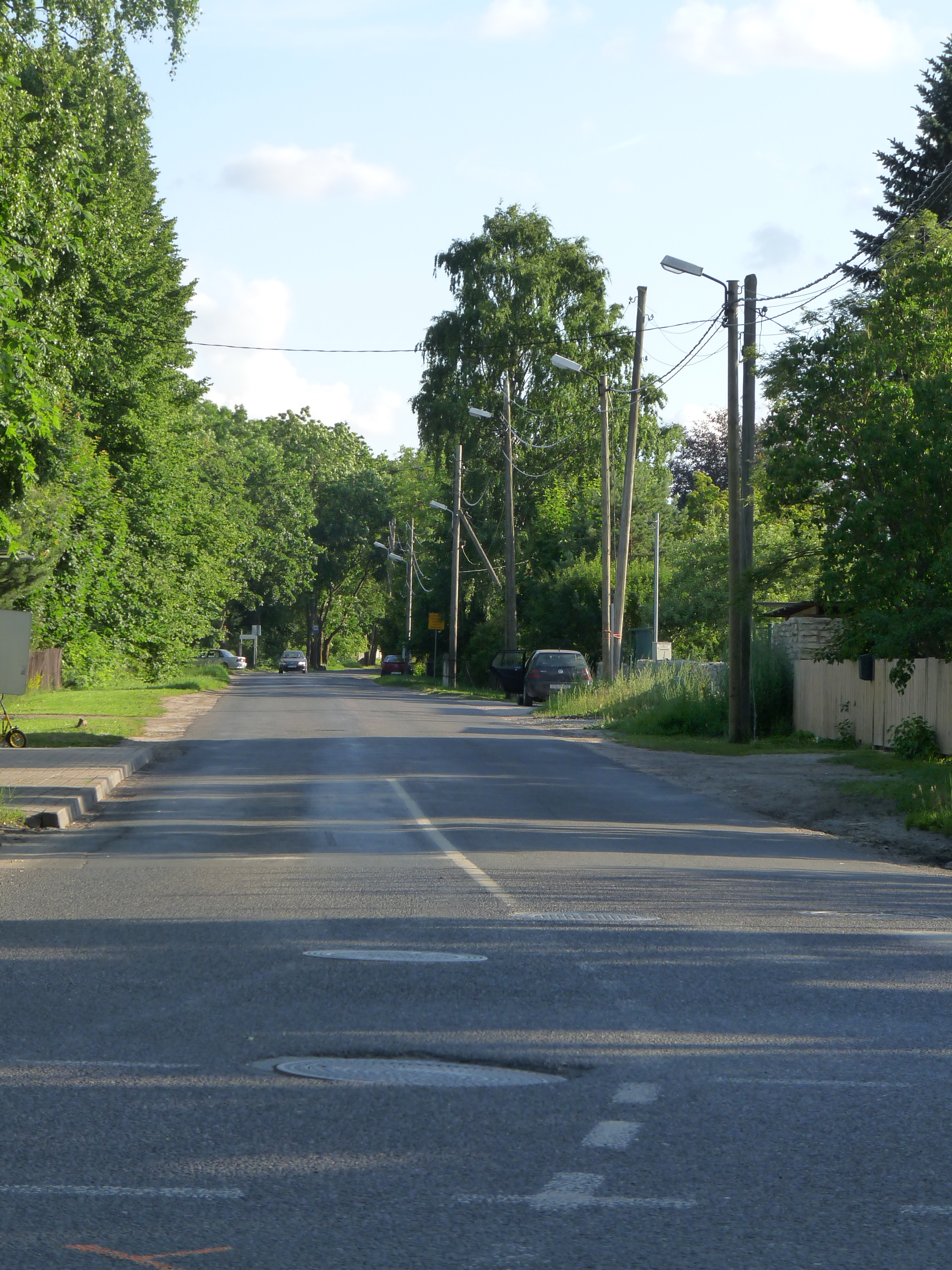 Luite street in Tallinn, Estonia